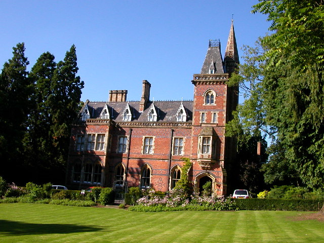 Brownsover Hall Hotel.